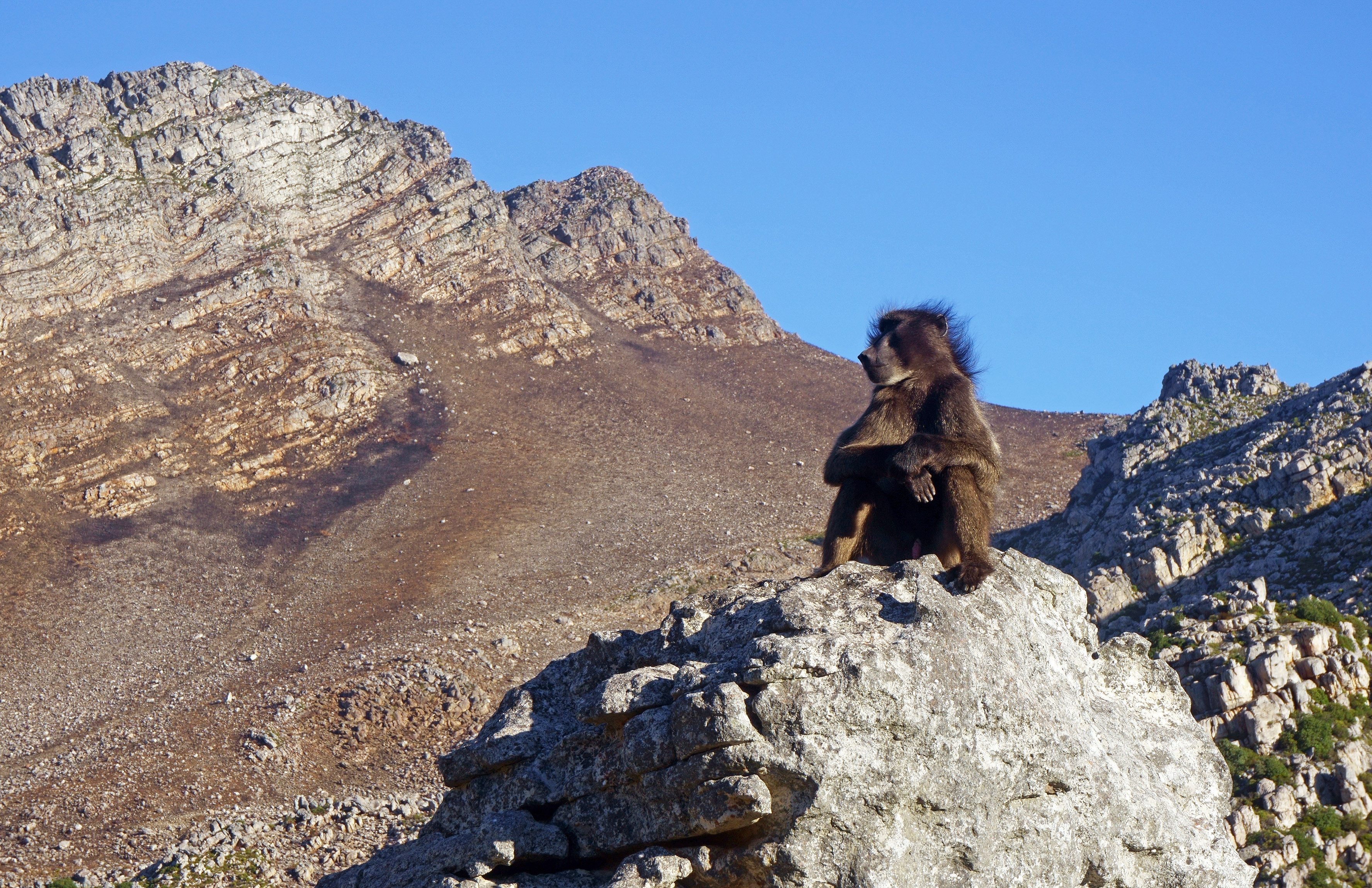 A male chacma baboon (Papio ursinus) enjoying of the sunset in the Steenbras Nature Reserve, to the east of Cape Town, South Africa.